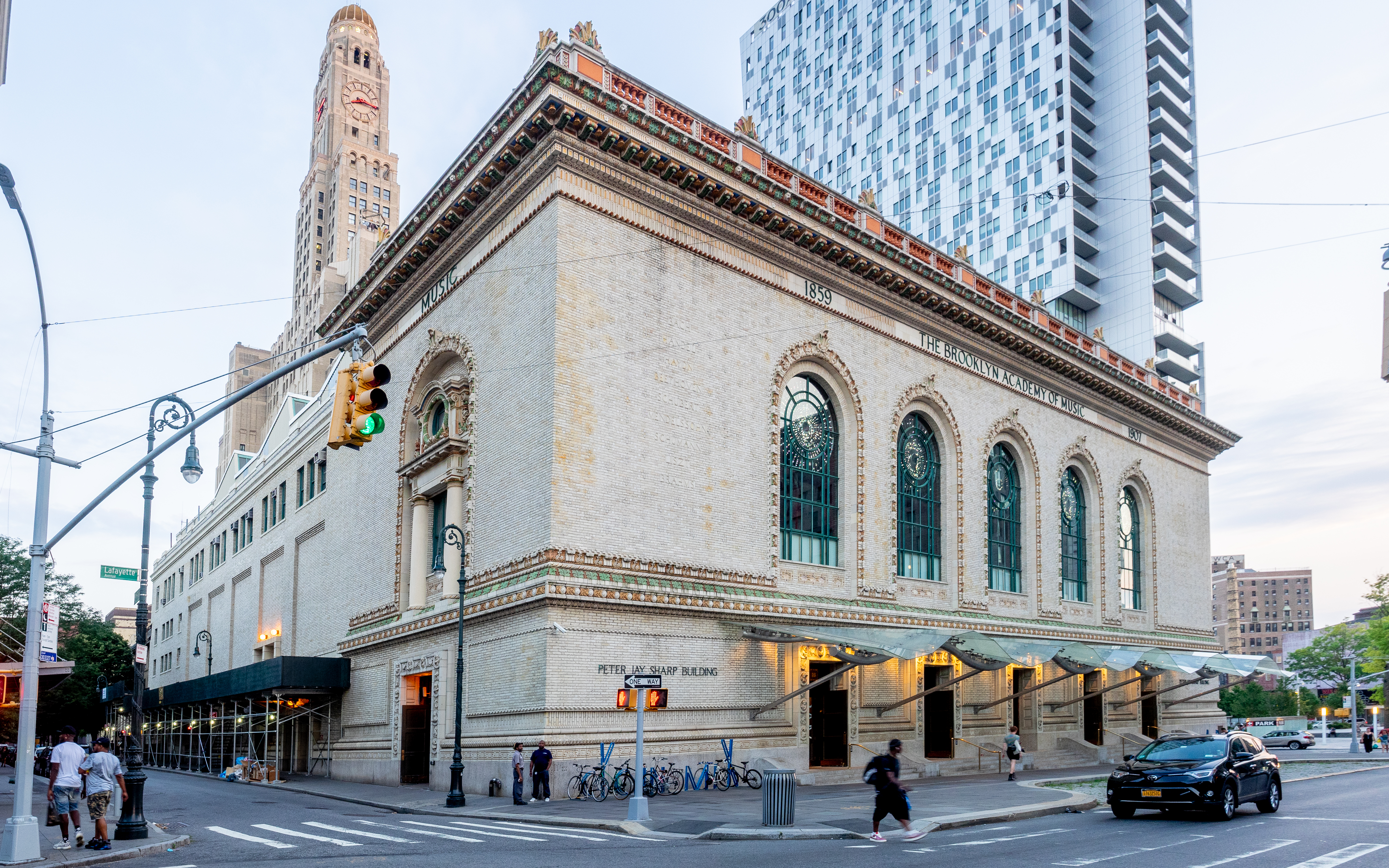 Fort Greene, Brooklyn, New York City